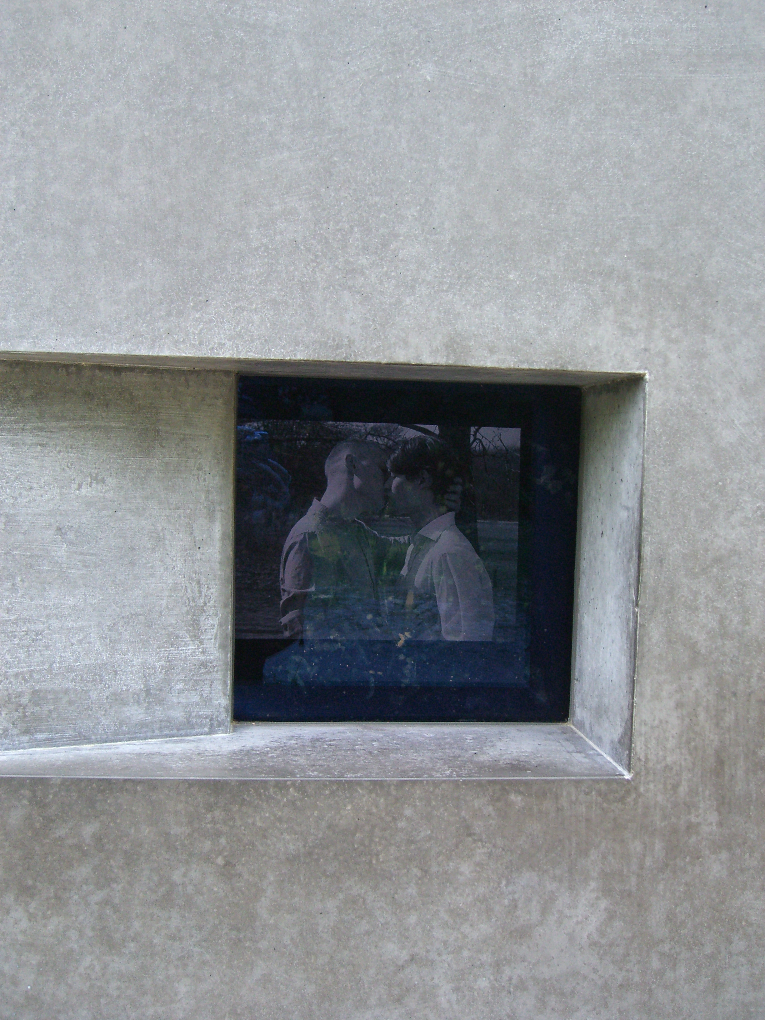 memorial for persecuted homosexuals during the Nazi period in Berlin.